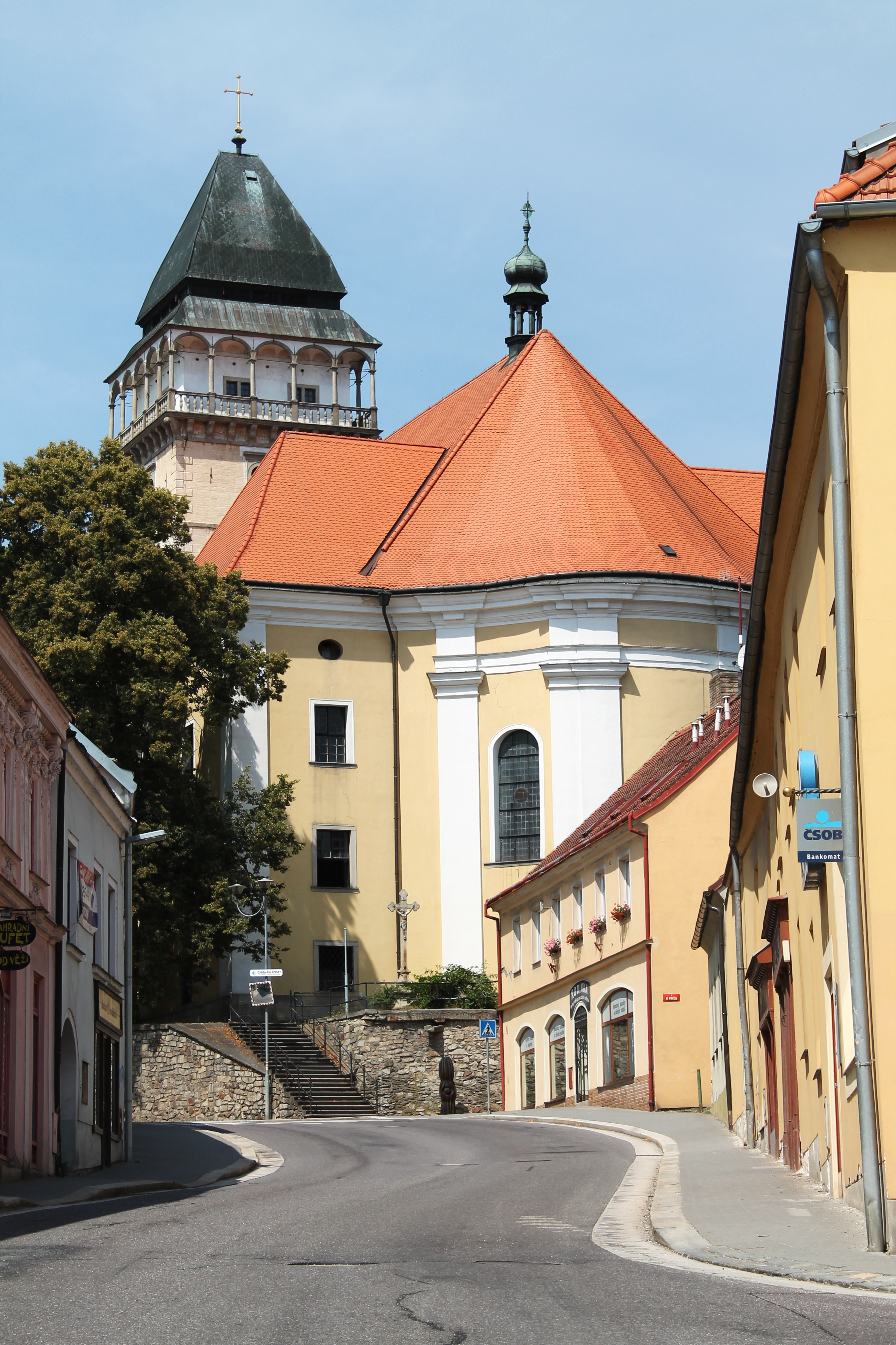 Church of St. Lawrence, Dačice, Jindřichův Hradec District, Czech Republic - OpenStreetMap (Info)